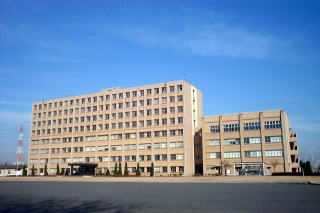 Transportion School,JGSDF